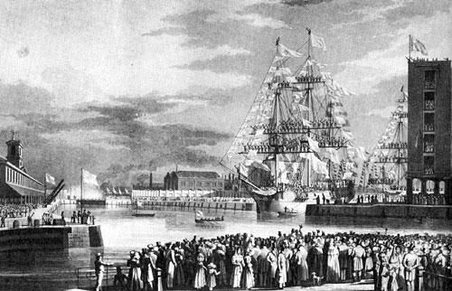 Print by unknown artist depicting entrance of the Elizabeth, the first ship to enter the St Katharine Docks on the day of their opening, 25 October 1828.